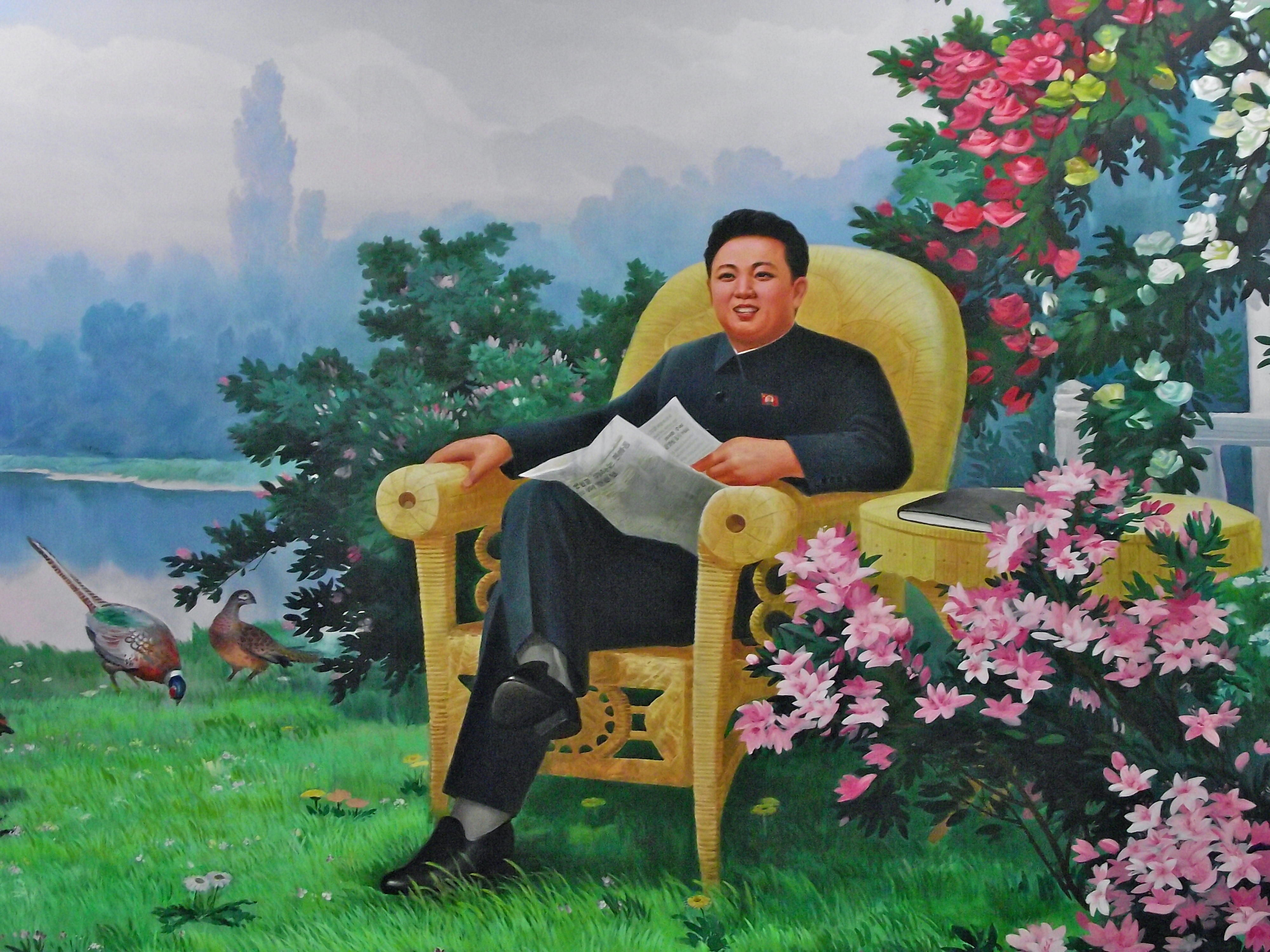 Kim Jong-il in North Korean propaganda